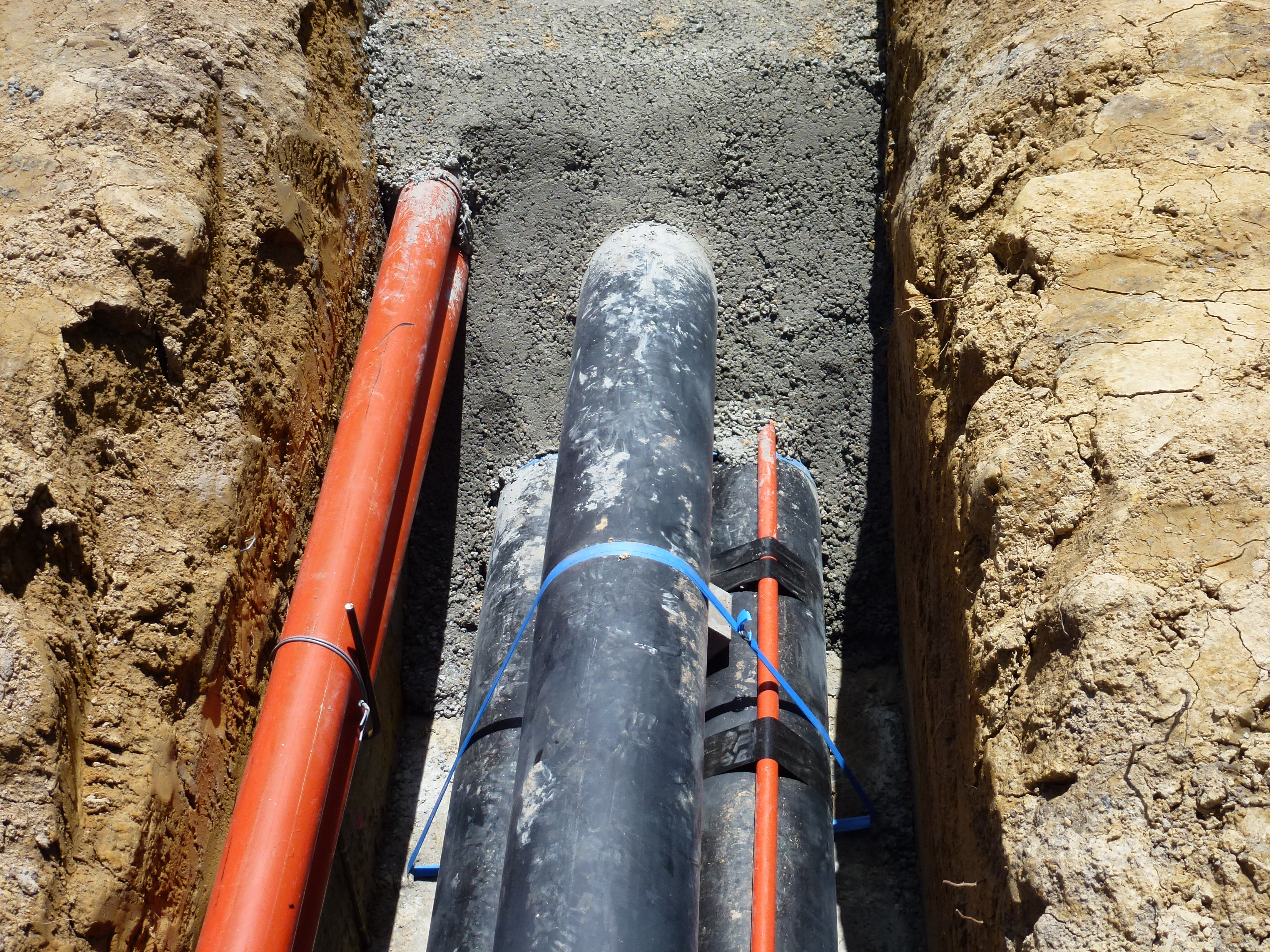 220 kV cables in trefoil configuration; Auckland, New Zealand